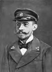 Georges Lecointe, captain of the Belgica and second-in-command of the Belgian Antarctic Expedition